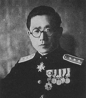 Kingo Machimura(The 53rd Superintendent General of the Tokyo Metropolitan Police Department)